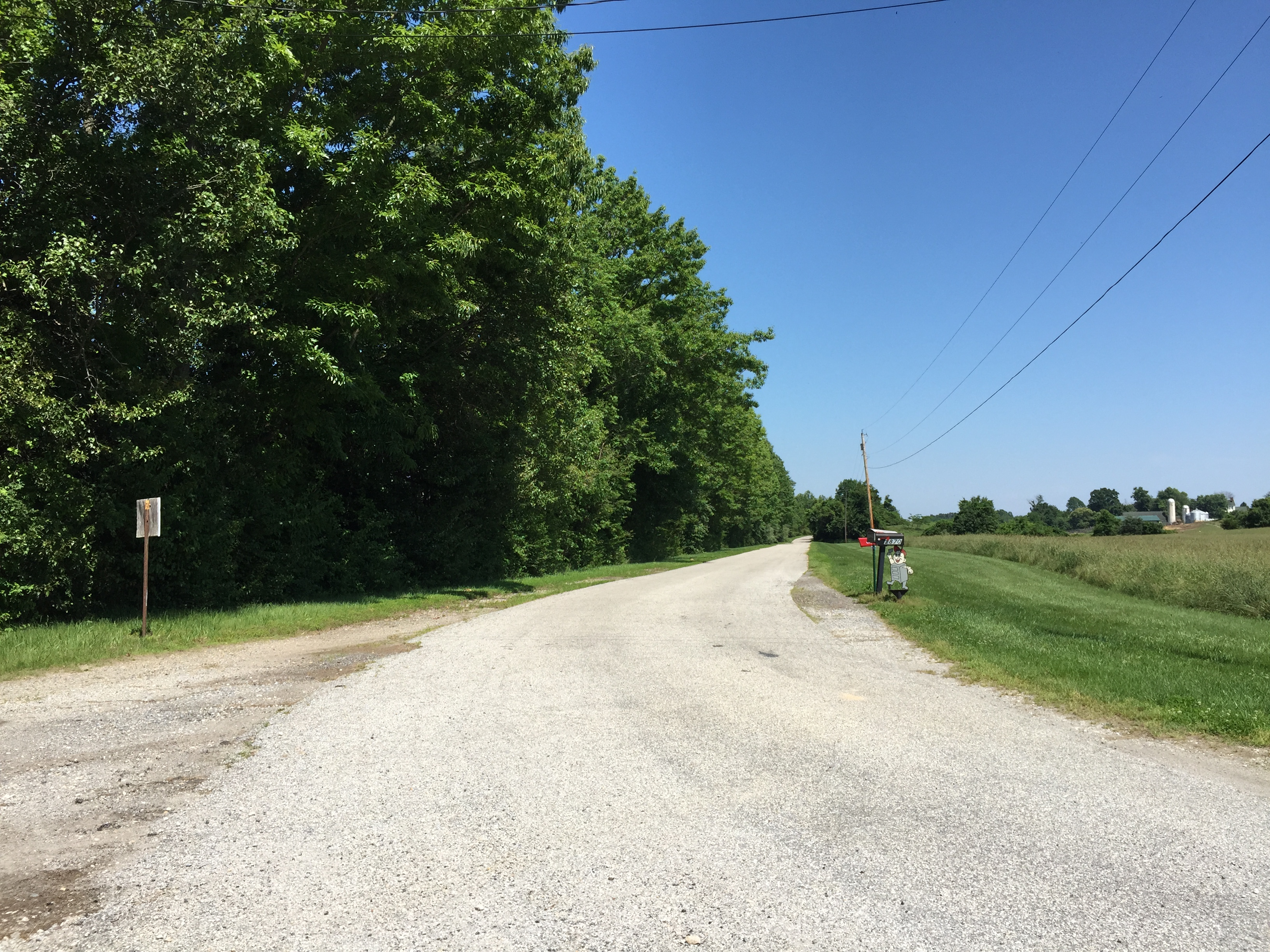 View south from the north end of Maryland State Route 909 (Service Road) in western Anne Arundel County, Maryland